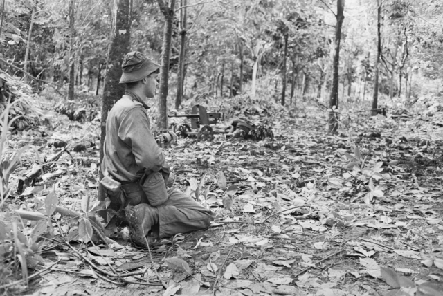 LONG TAN, VIETNAM. 1966-08-19. BACK ON THE BATTLEFIELD AFTER THE HEROIC ACTION BY DELTA COMPANY OF THE 6TH BATTALION, ROYAL AUSTRALIAN REGIMENT (6RAR), IN WHICH THEY KILLED MORE THAN 200 VIET CONG (VC), SECOND LIEUTENANT DAVID SABBEN, OFFICER COMMANDING 12 PLATOON, AND OF ST IVES, NSW, ADVANCES CAUTIOUSLY THROUGH THE RUBBER PLANTATION PAST BODIES OF DEAD VC NEAR A CHICOM 7.62MM HEAVY MACHINE-GUN.